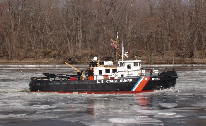 The United States Coast Guard Cutter Bollard breaking ice. From This is a work of a US Coast Guard employee in the public domain